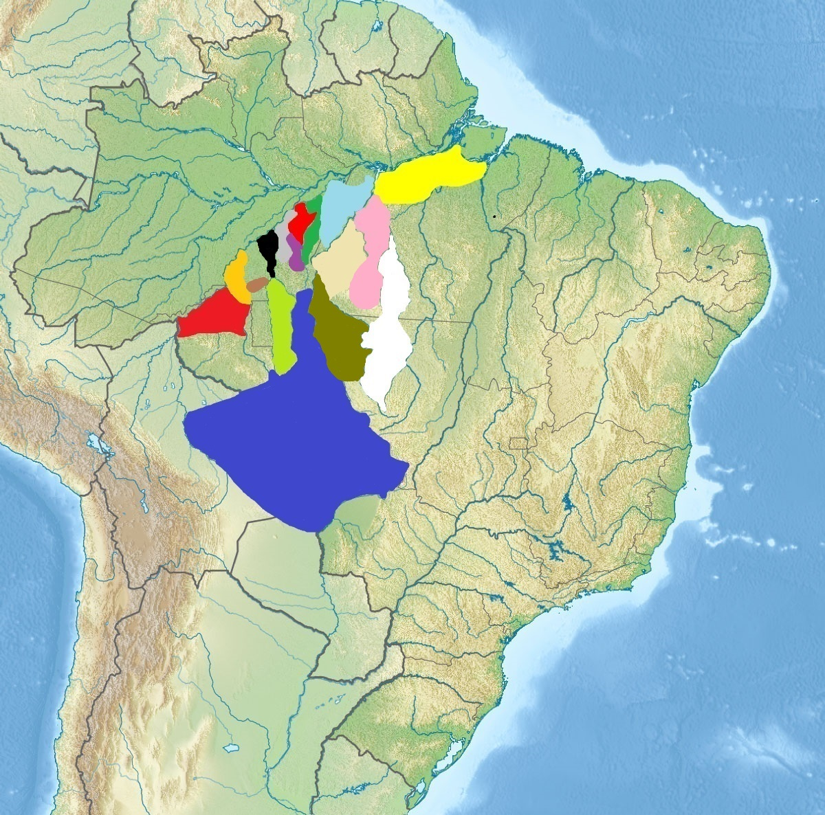 Distribution of 15 Mico species